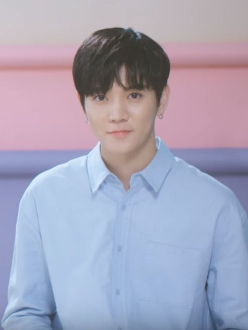 LABIOTTE